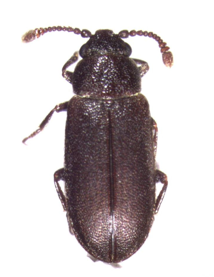 adult Taphropiestes n.sp., keys to T. watti in Slipinski & Tomaszewska (2010), but shape of pronotum doesn't seem to be quite right